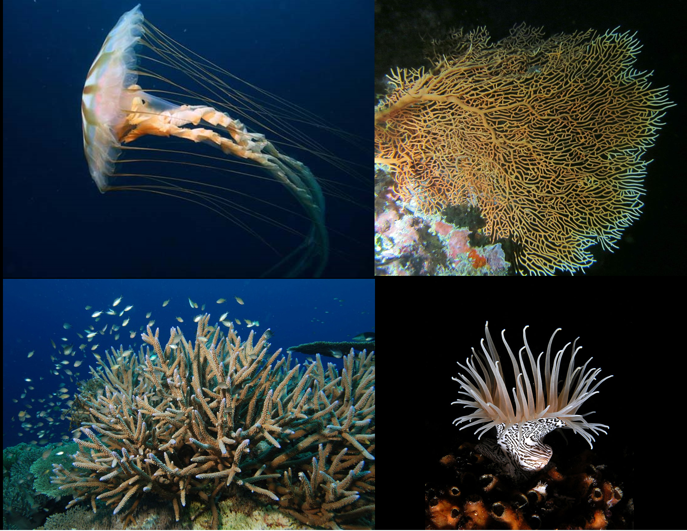 Four examples of Cnidaria : A jellyfish Chrysaora melanaster (from this file) A gorgonian Annella mollis (from this file) A rocky coral Acropora cervicornis (from this file) A sea anemone Nemanthus annamensis (from this file)